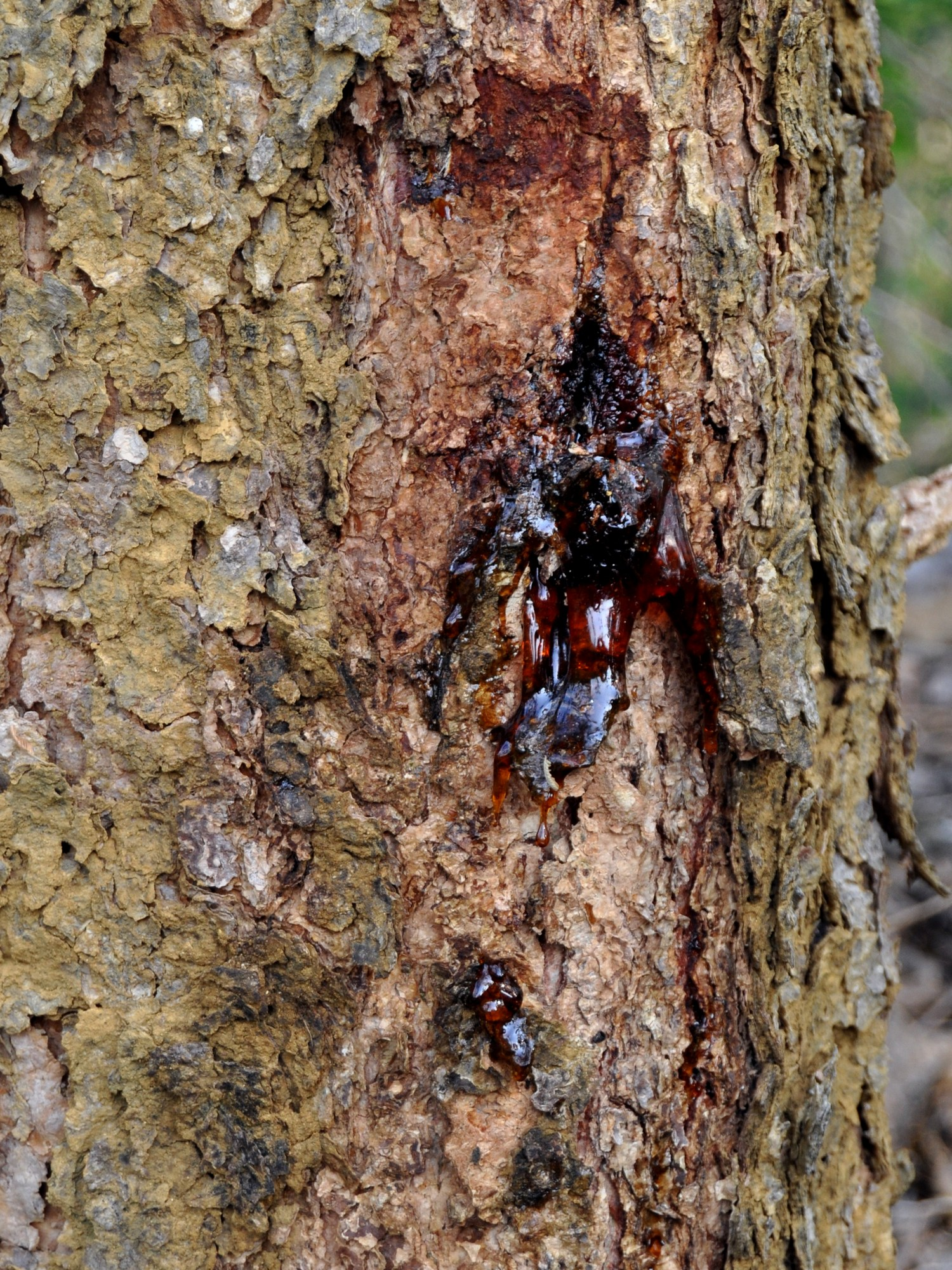 Acacia tomentosa, bark and exuding gom. Blora, Central Java, Indonesia.